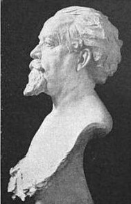 Jorgen C. Dreyer was commissioned to sculpt a bust of Carl Busch, composer and conductor of the forerunner of the Kansas City Symphony Orchestra from 1911 to 1918. This bust is in the foyer of the Music Hall of the Kansas City Municipal Auditorium.